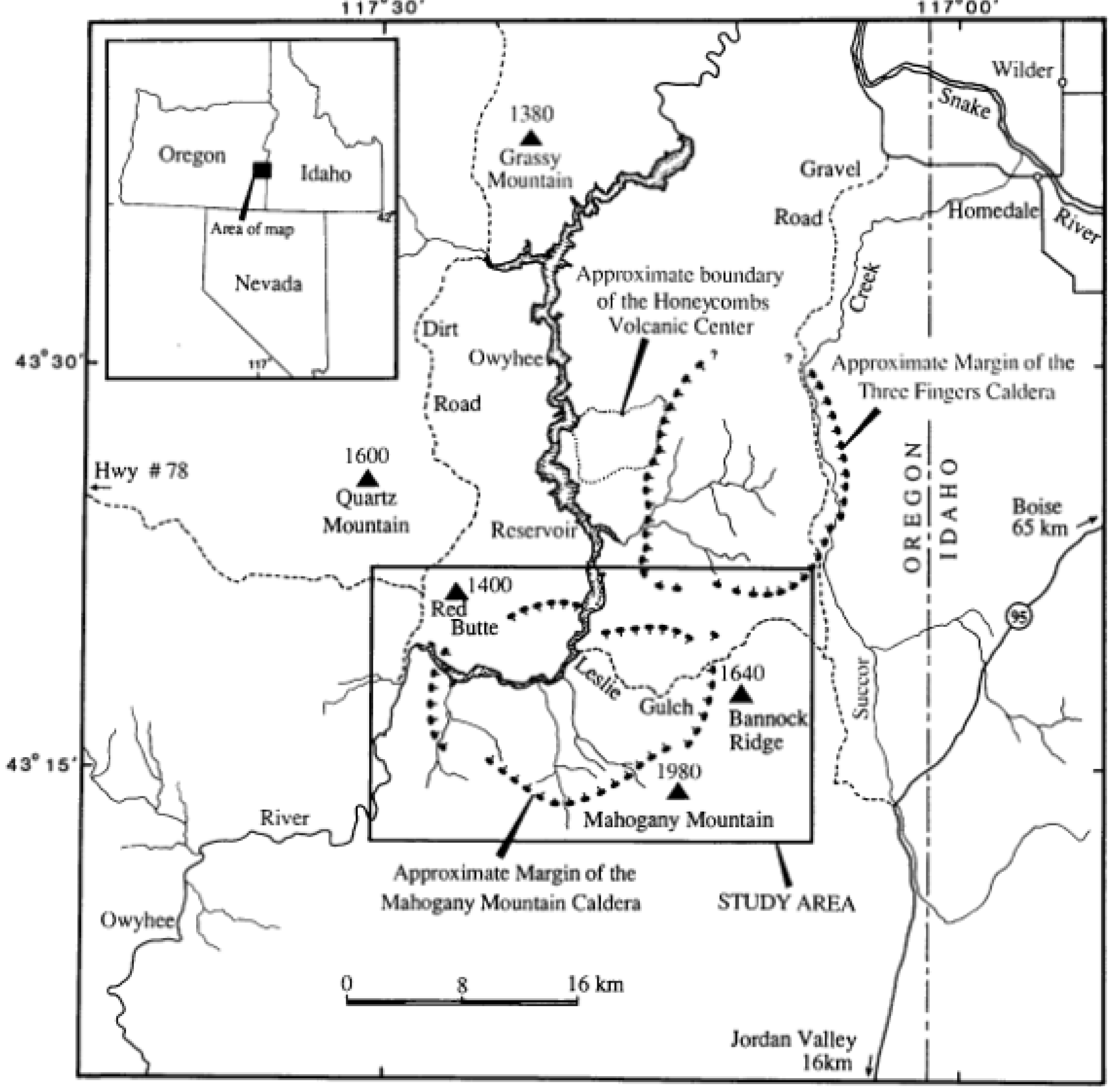 Location map of the Mahogany Mountain Caldera in Malheur County of eastern Oregon and Owyhee County of western Idaho.